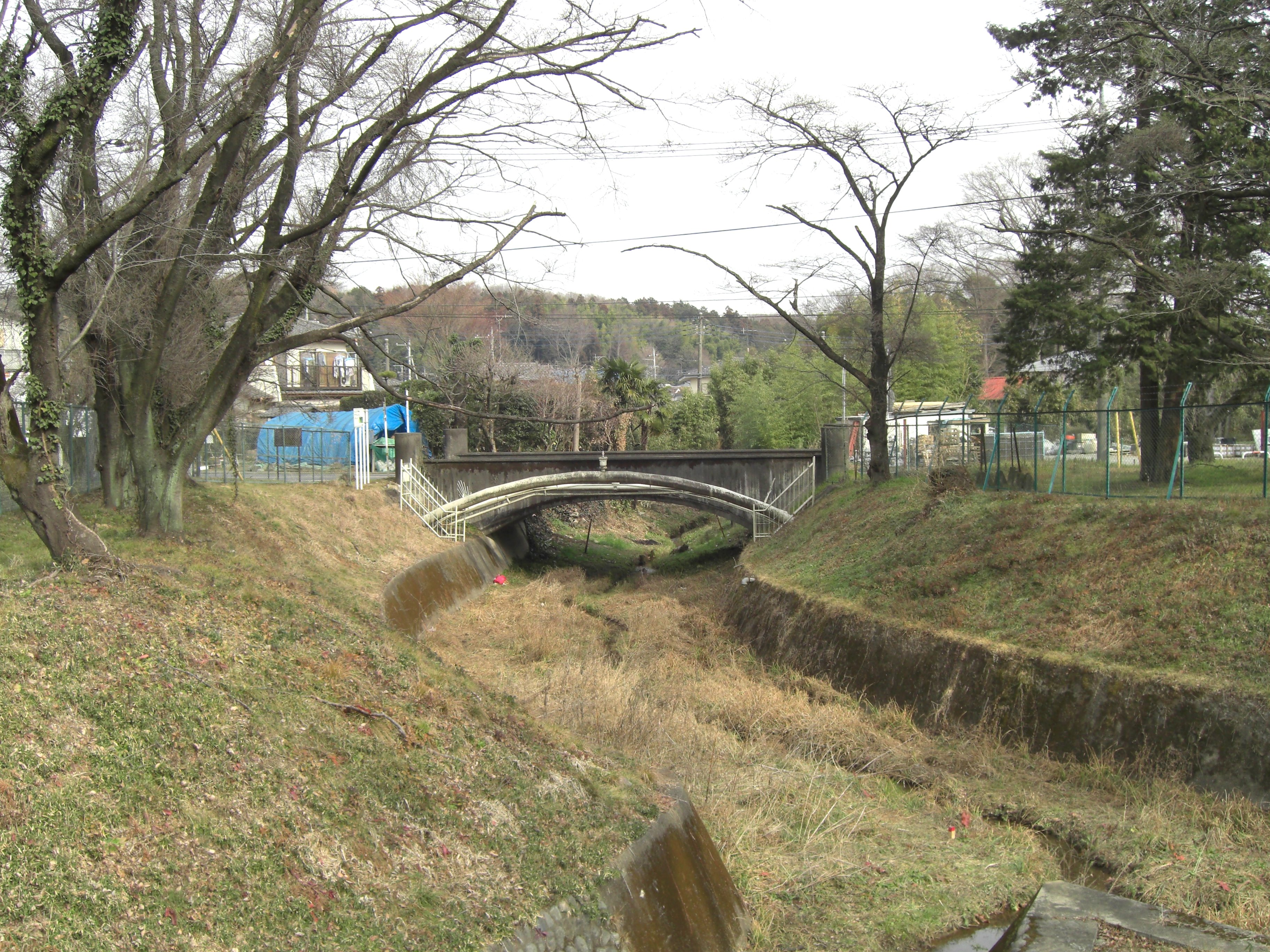 Yanase River Tokorozawa, Japan